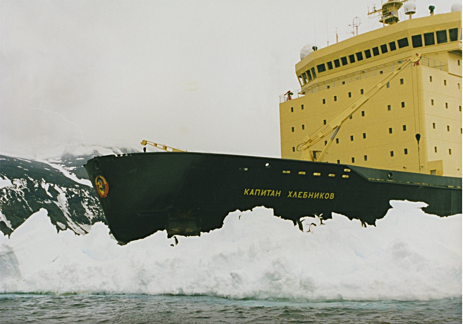 Icebreaker Kapitan Khlebnikov and penguins in the Ross Sea, Antarctica. IMO Number: 7824417 MMSI Number: 273146110 Callsign: UGSE Length: 133 m Beam: 27 m